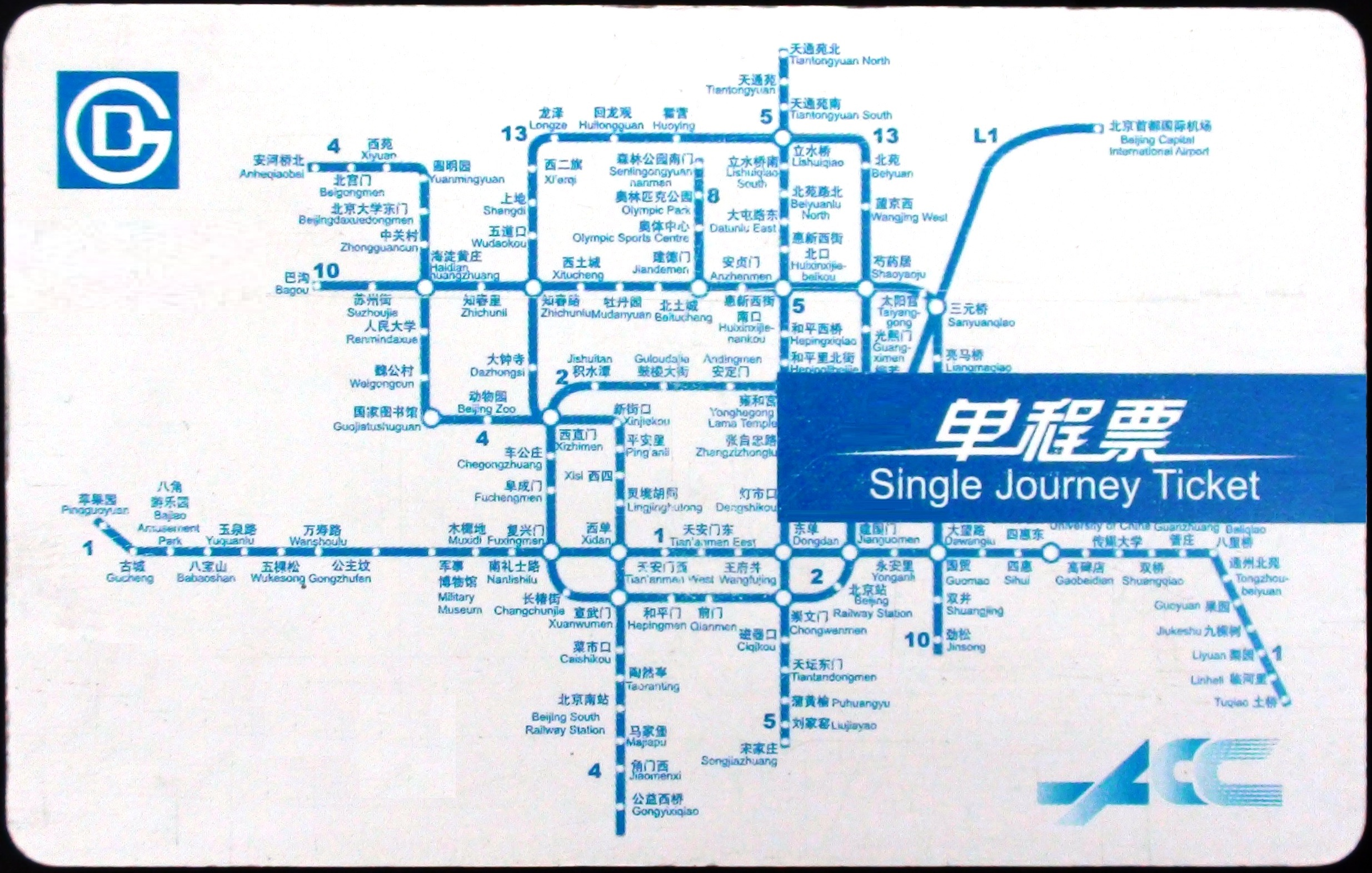 Beijing subway ticket 2011